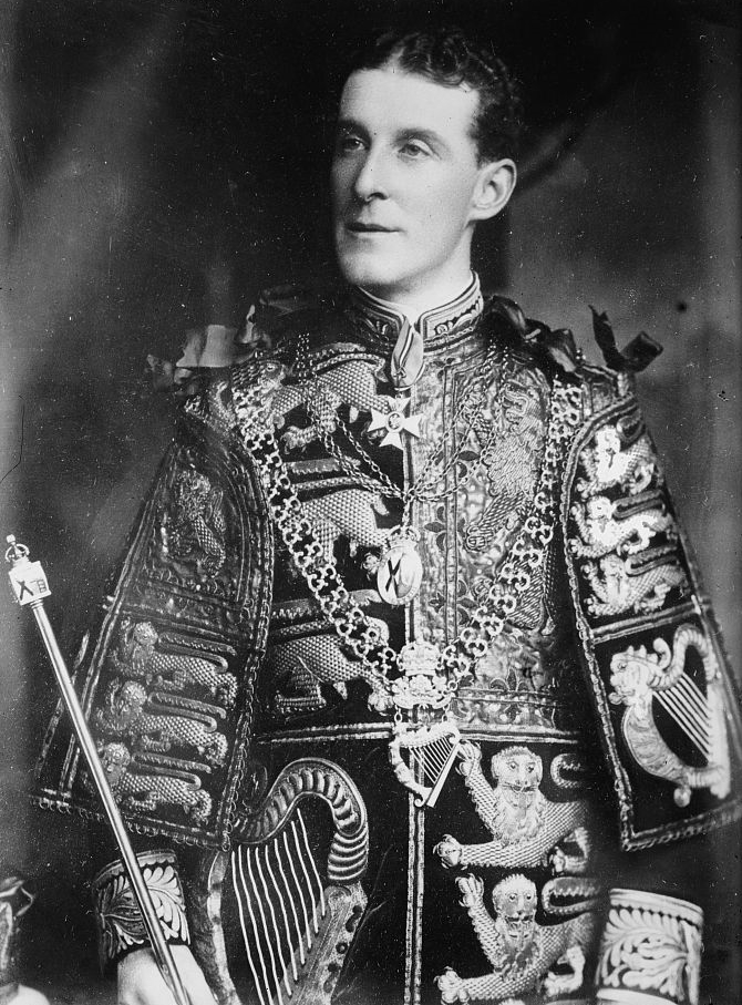 British genealogist and heraldist Sir Arthur Vicars (1862–1921), Ulster King of Arms and Knight Commander of the Royal Victorian Order.